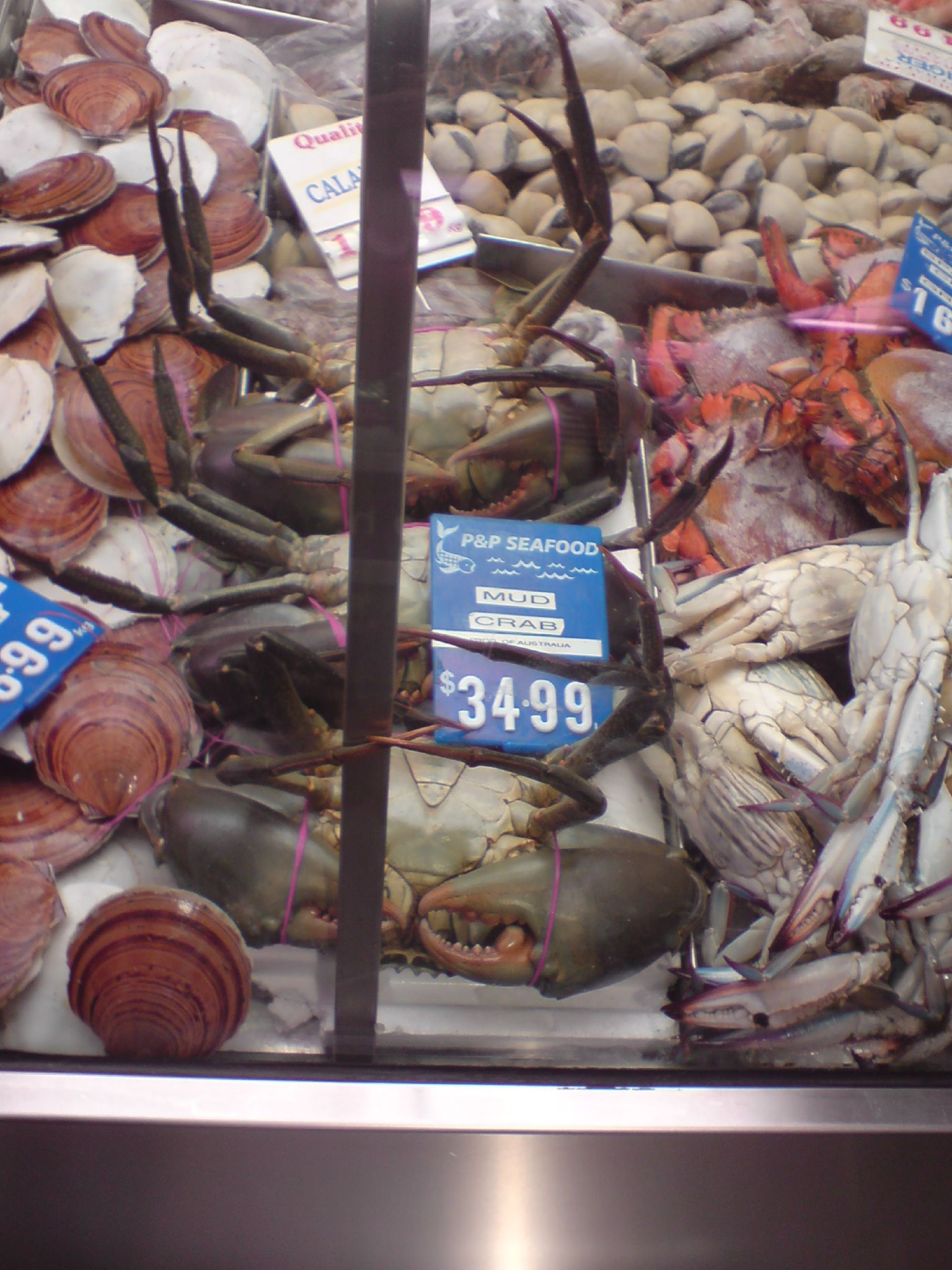 Mud crabs at P&P Seafood, Queen Victoria Market